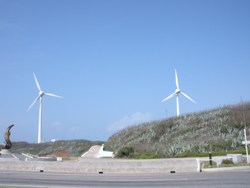 中屯風車